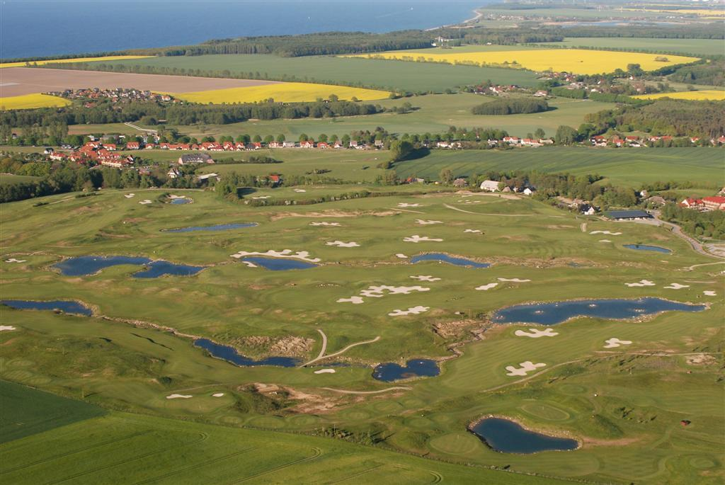 Golf course "Golfplatz Wittenbeck" in Mecklenburg at the Baltic Sea coast, Germany